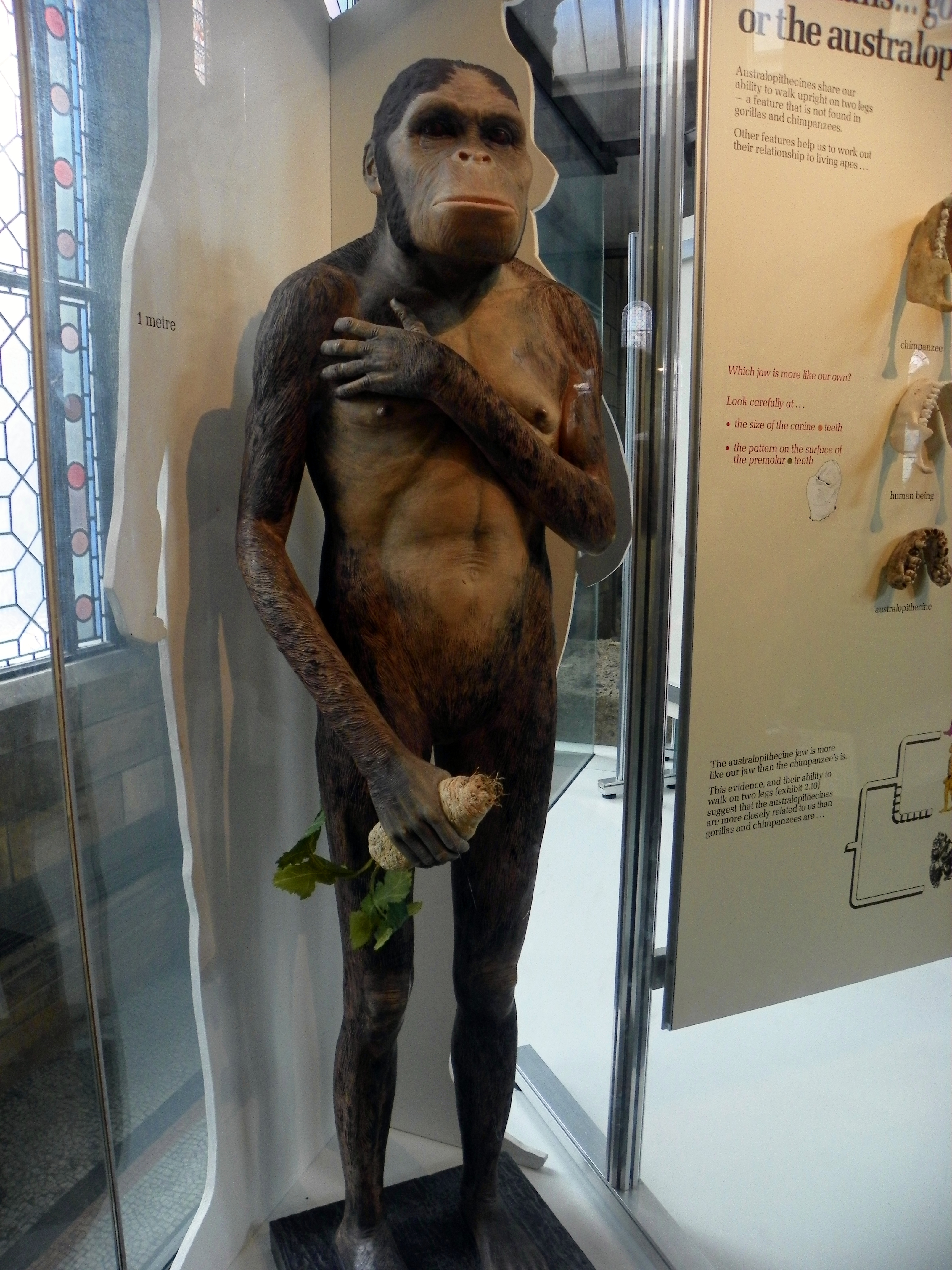 Human ancestor. Natural History Museum, London, 27 August 2012.